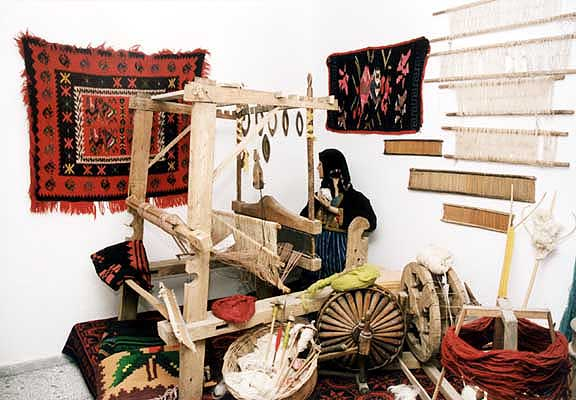 Part of the museum’s folklore collection, image from the Anthropological and Folklore Museum, Ptolemaida, West Macedonia, Greece